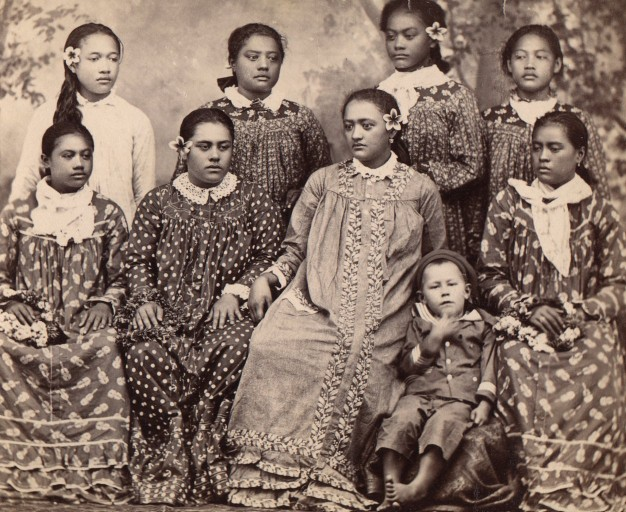 Tahitian girls wearing Mother Hubbard dress.